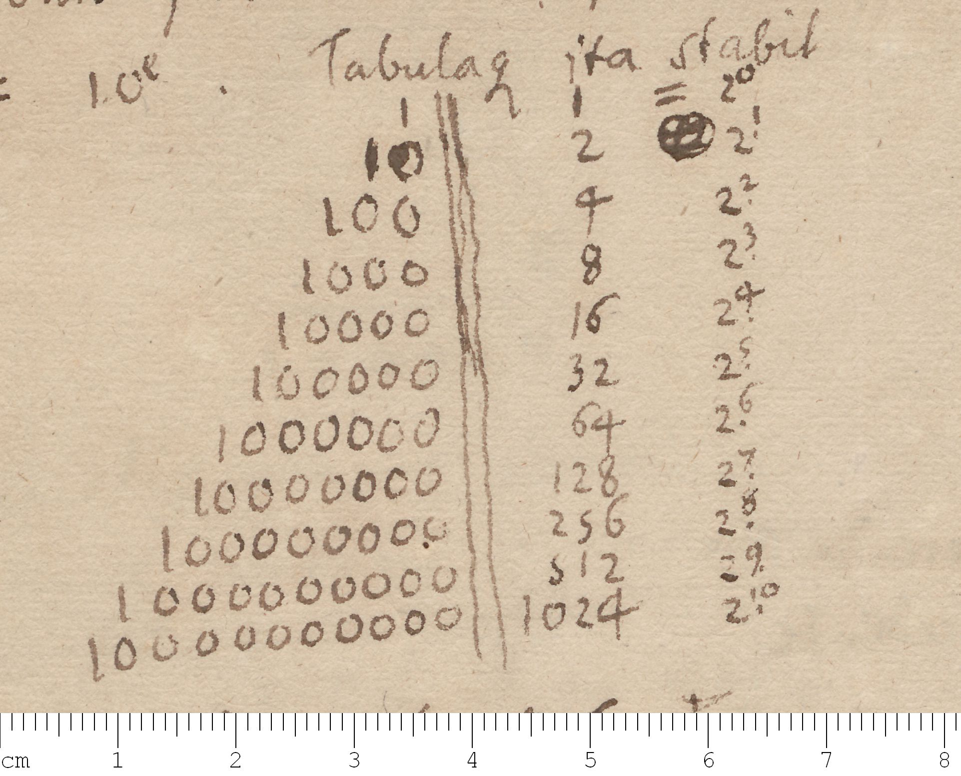 Binary numeral system - "Gottfried Wilhelm Leibniz "De Dyadicis" Signature LH XXXV, III B 1, Bl. 1-4